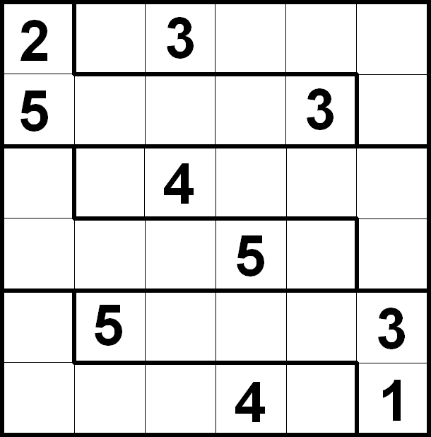 Irregular sudoku